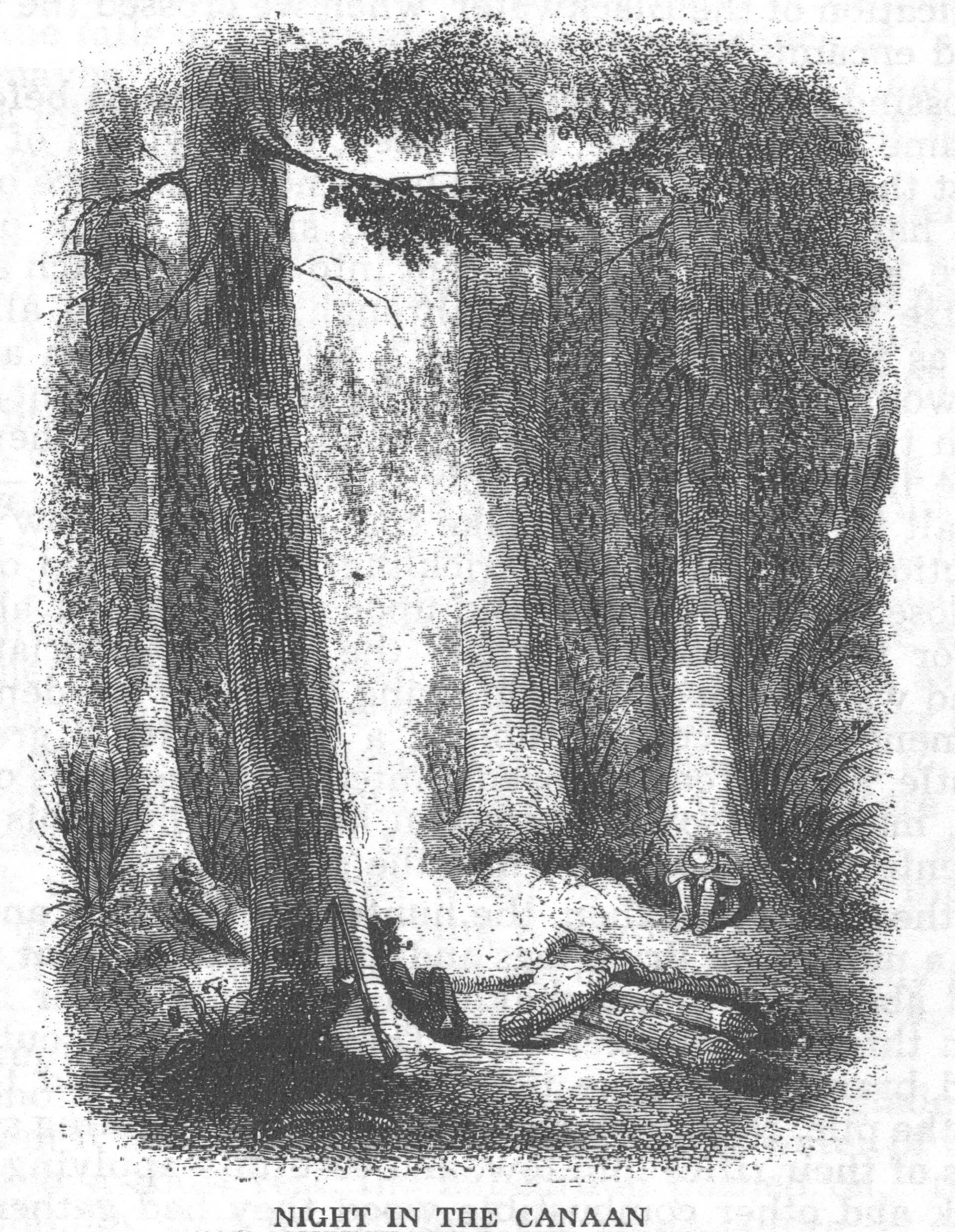 Reproduction of David Hunter Strother's engraving "Night in the Canaan" (Canaan Valley, West Virginia, USA); From "The Virginia Canaan", Harper's Magazine, 8:18-36; Dec 1853.